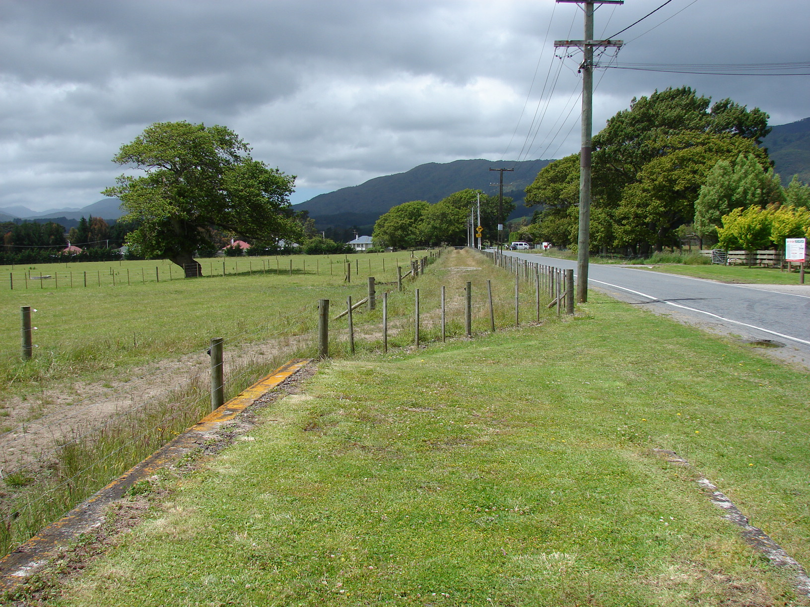 Mangaroa railway station, looking east at the foothills of the Rimutaka Ranges. Photographed by Matthew25187 on 2006-12-24.